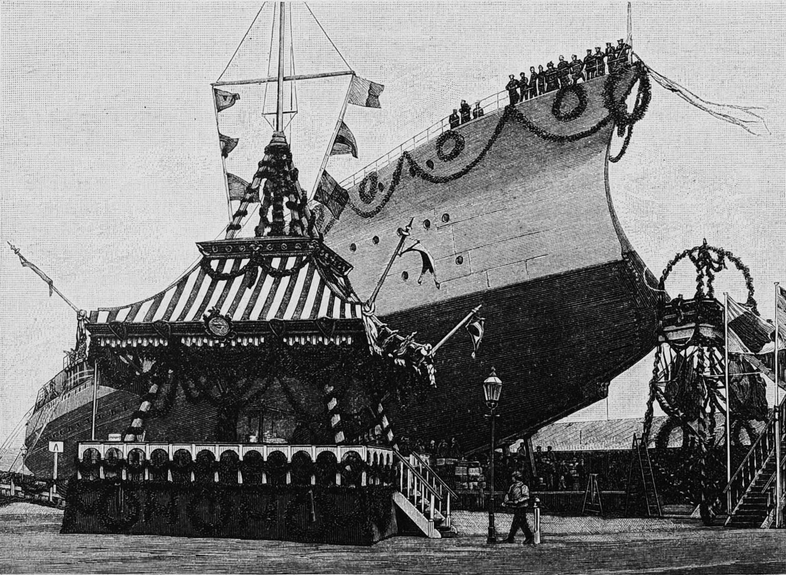 caption: "Der Stapellauf des Panzerkreuzers „Fürst Bismarck“."